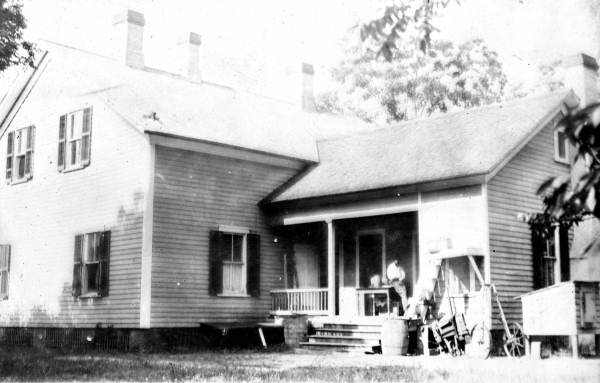 Local call number: N038137 Title: [Main house at Tall Timbers : Tallahassee, Florida.] [picture] Publication info: 1919. Physical descrip: 1 photonegative : b&w ; 4 x 5 in. Series Title: (General collection) General Note: Back view, kitchen at right.